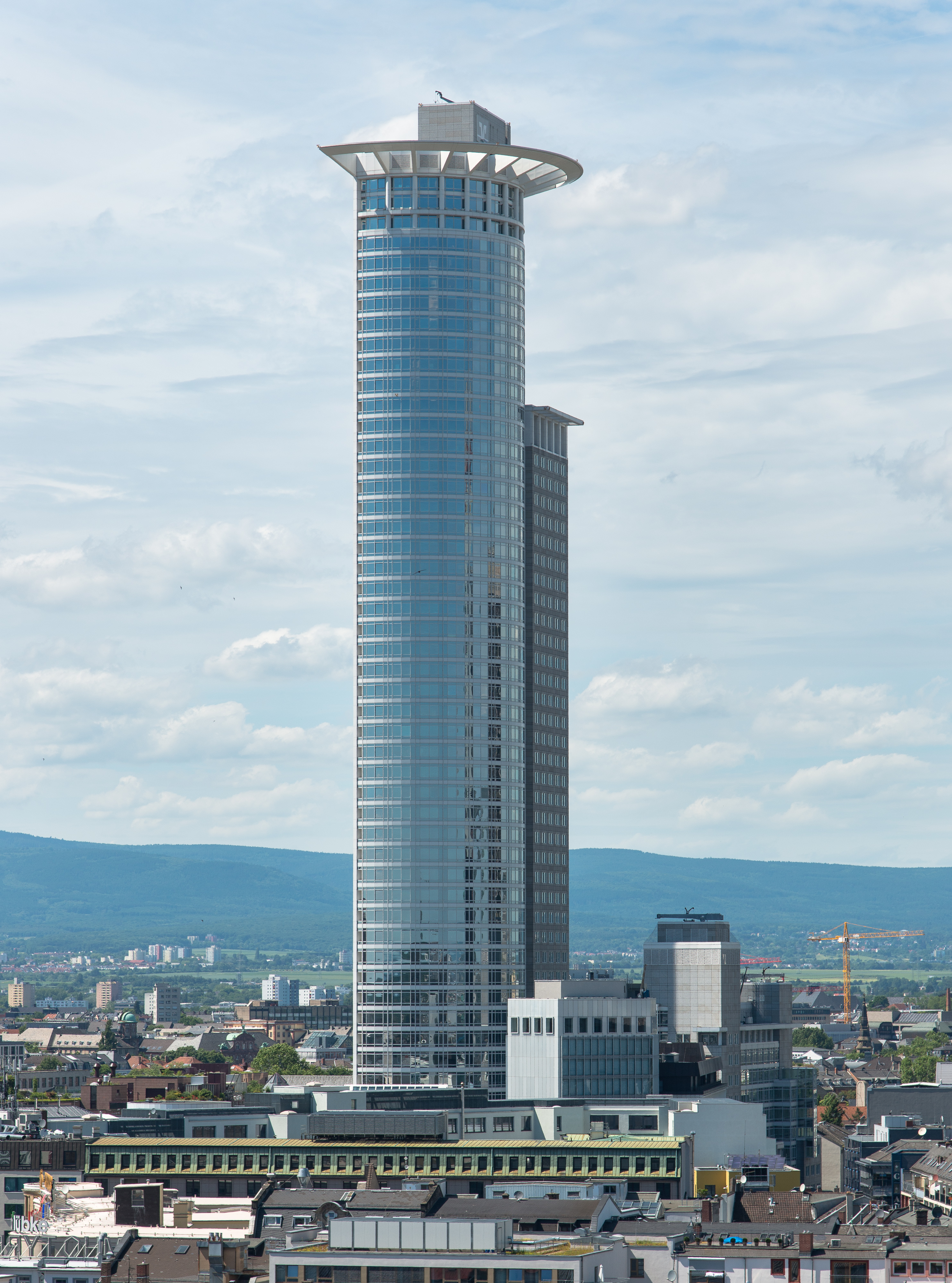 Frankfurt am Main, Westend 1 tower as seen from South.